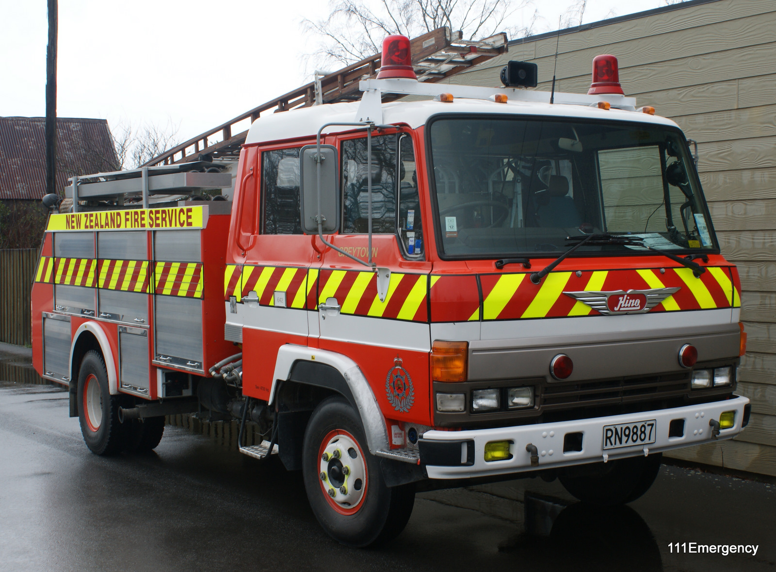 Greytown Volunteer Fire Brigade